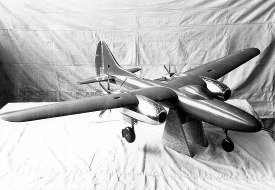 Wooden model of the Curtiss XP-71.